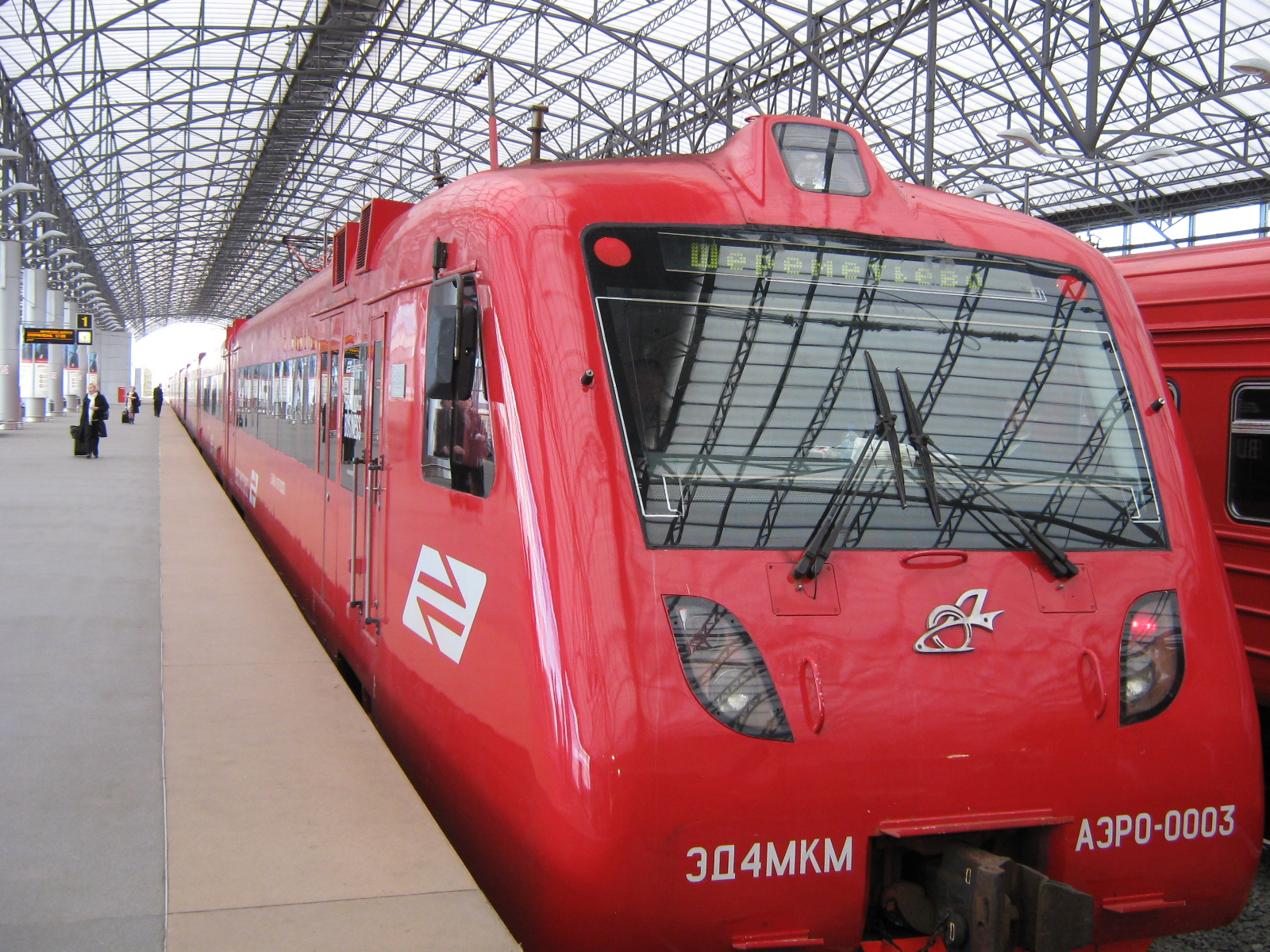 SVO train to Moscow